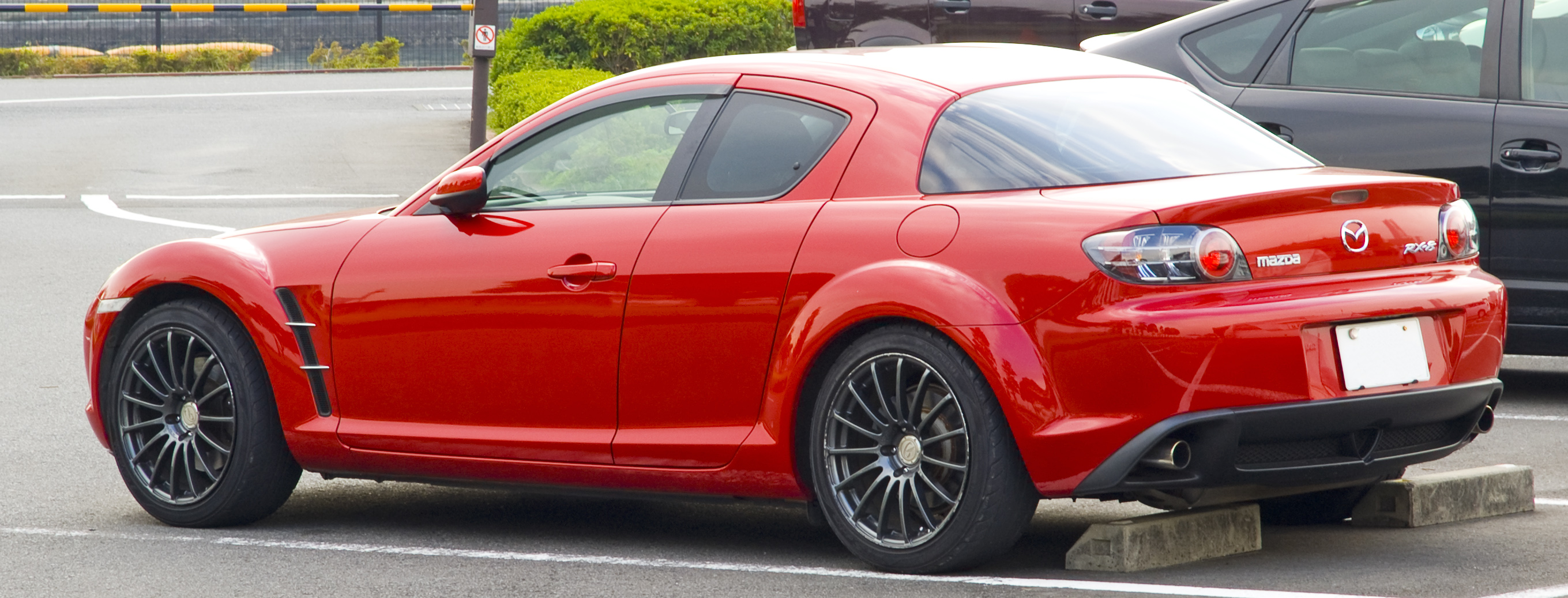 2003-2007 Mazda RX-8 photographed in Yokohama Red Brick Warehouse